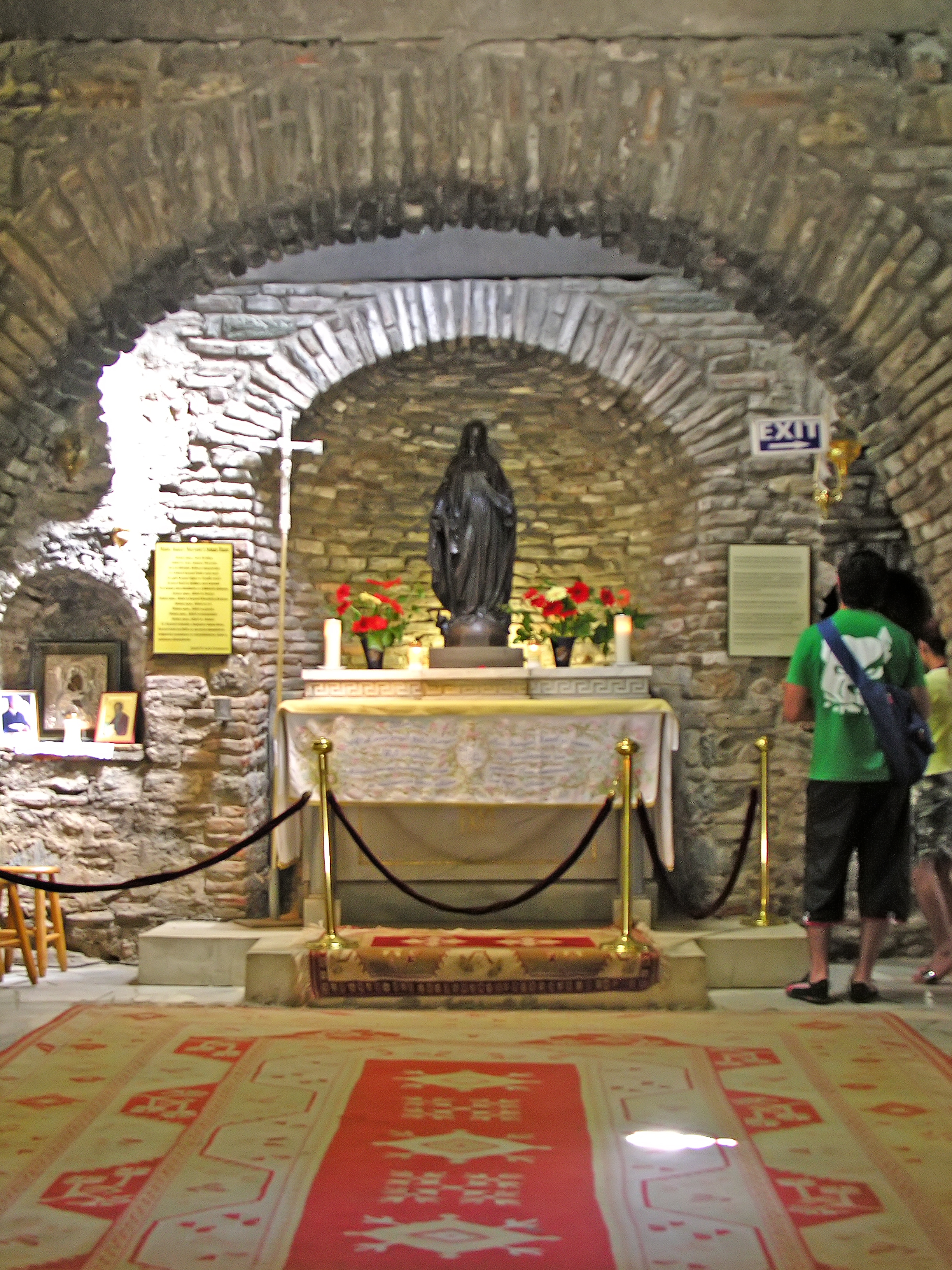 Turkey-2843